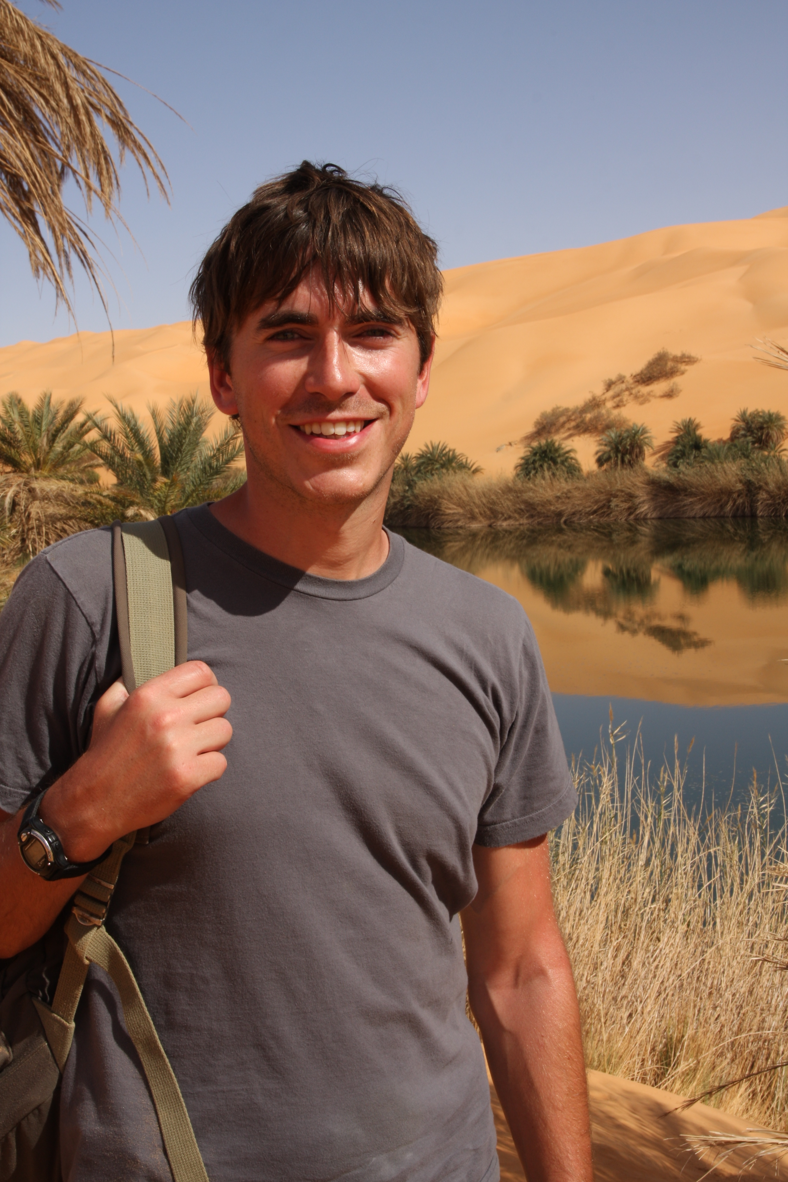 Photo shows Simon in the Category:Wadi Al Hayaa District, of the Fezzan region in southwestern Libya, at Al Gabroun, one of the spectacular Ubari Lakes, some of which are drying-up. Scientists blame climate change and over-extraction of water by farmers in the region. Simon Reeve, BBC TV presenter and author, in a publicity photograph taken while travelling around the Tropic of Cancer, the northern border of the tropics region. On this leg of the journey he travels across North Africa to Libya (crossing several international borders that have been closed to foreigners for decades).